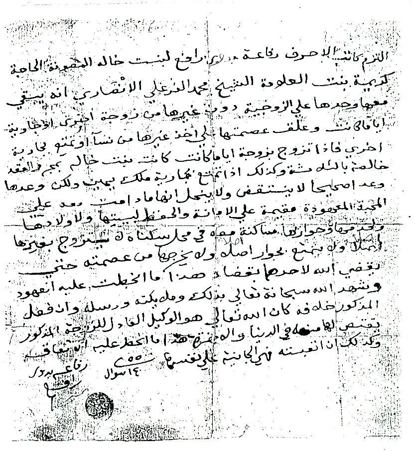 Tahtawi agreement with his wife not to marry another women اتفاق بين رفاعة الطهطاوى وزوجته التزم كاتب الأحرف رفاعة بدوي رافع لبنت خاله المصونة الحاجة كريمة بنت العلامة الشيخ محمد الفرغلي الأنصاري انه يبقى معها وحدها على الزوجية دون غيرها من زوجة أخرى أو جارية أياً ماكانت ، و علقت عصمتها على أخذ غيرها من نسا أو تمتع بجارية أخرى ، فإذا تزوج بزوجة أيا ما كانت ، كانت بنت خاله بمجرد العقد عليها خالصة بالثلاثة ، كذلك إذا تمتع بجارية ملك يمين ، و لكن وعدها وعدا صحيحاً لا ينتقض و لا ينحل انها ما دامت معه على المحبة المعهودة مقيمة على الأمانة و الحفظ لبيتها و لأولادها و لخدمها و جواريها ، ساكنة معه في محل سكناه ، لا يتزوج بغيرها أصلاً و لا يتمتع بجوار أصلاً ، و لا يخرجها من عصمته حتى يقضي الله لأحدهما بقضاء ، هذا ما انجعلت عليه العهود و شهد الله يبحانه و تعالى بذلك و ملايكته و رسله ، و إن فعل المذكور خلافه ، كان الله تعالى هو الوكيل العادل للزوجة المذكور يقتص لها منه في الدنيا و الآخرة ، هذا ما انجعل عليه الاتفاق ،و كذلك إن تعبته فهي الجانية على نفسها